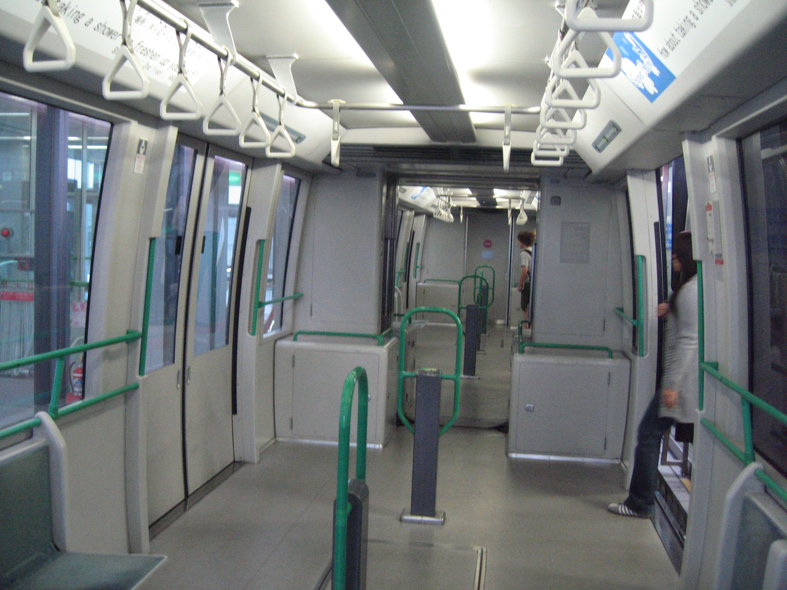 Kansai International Airport, People Mover system, Osaka, Kansai Region.